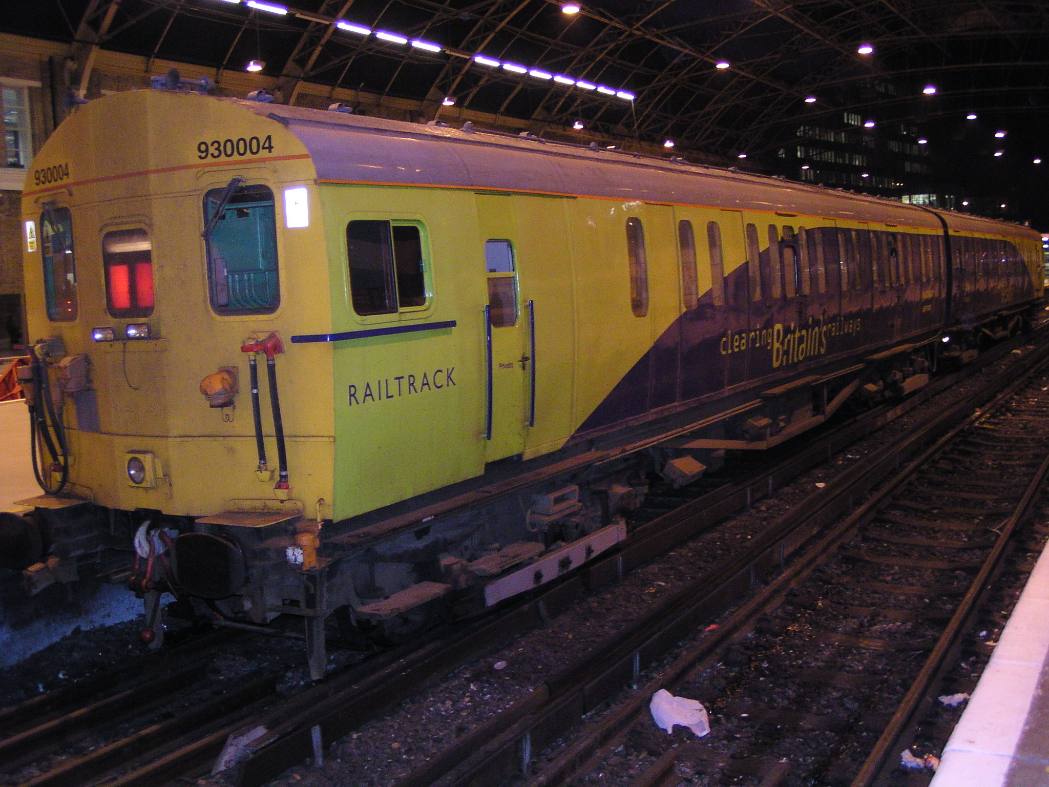 BR Class 930, no. 930004 at London Victoria on 18th March 2003, seen painted in Railtrack's blue and lime green livery. This former 4Sub unit was converted to a sandite/de-icing unit in 1979. It was withdrawn in mid-2004 and has since been scrapped. Image by Phil Scott (Our Phellap)